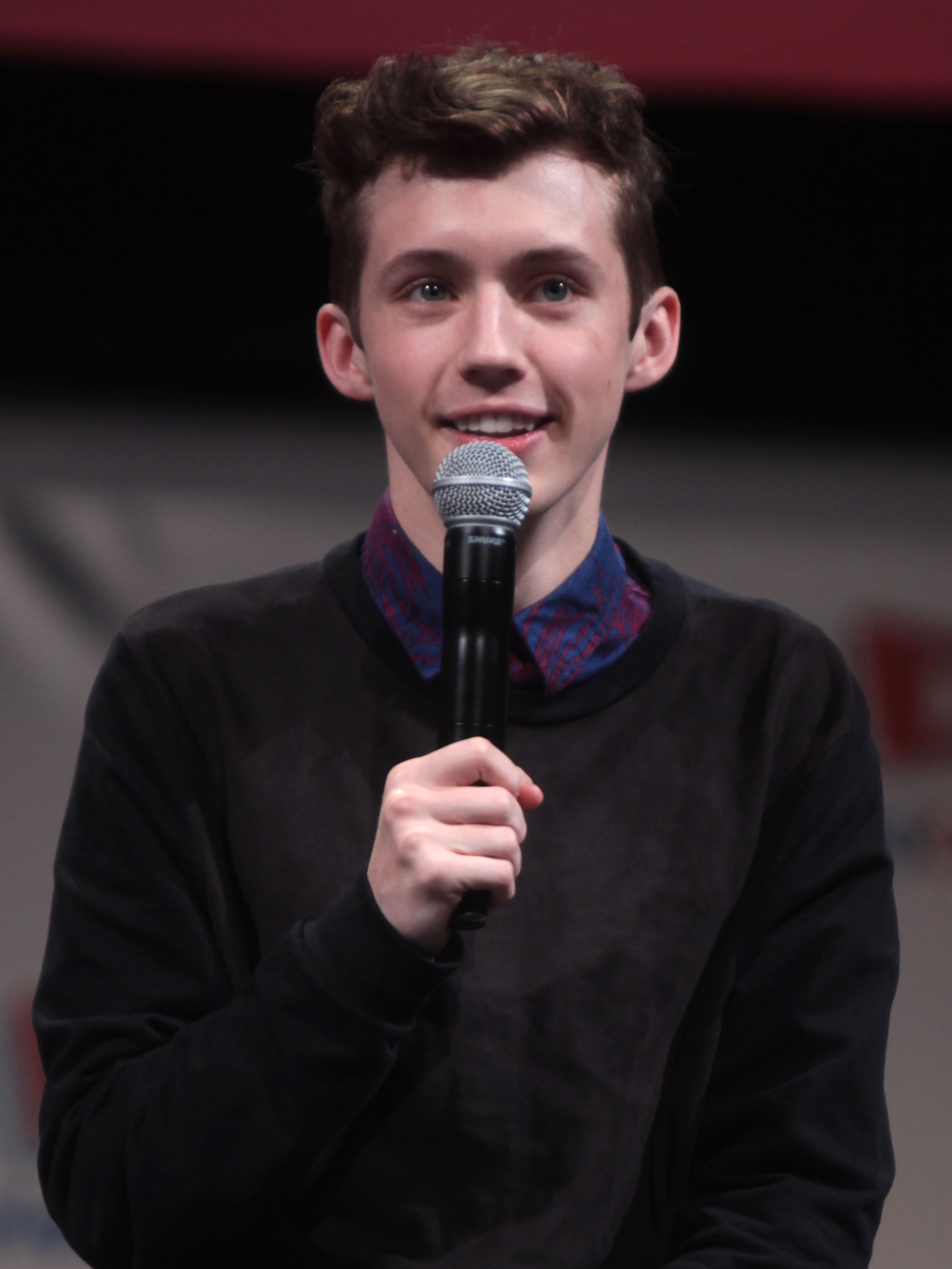 Troye Sivan speaking at the 2014 VidCon at the Anaheim Convention Center in Anaheim, California.